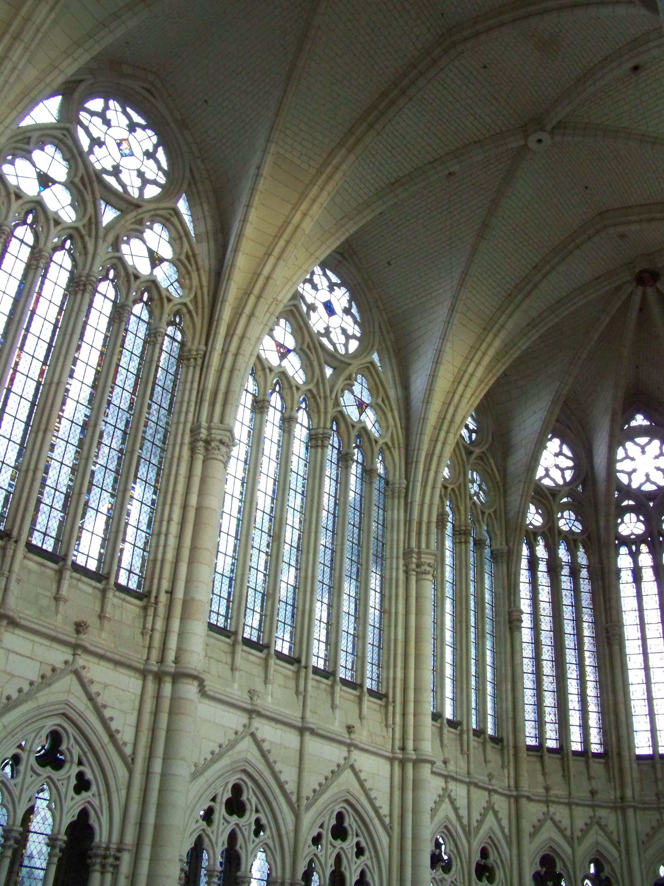 Great windows and vaults of the choir, Cathedral Notre-Dame of Amiens, France